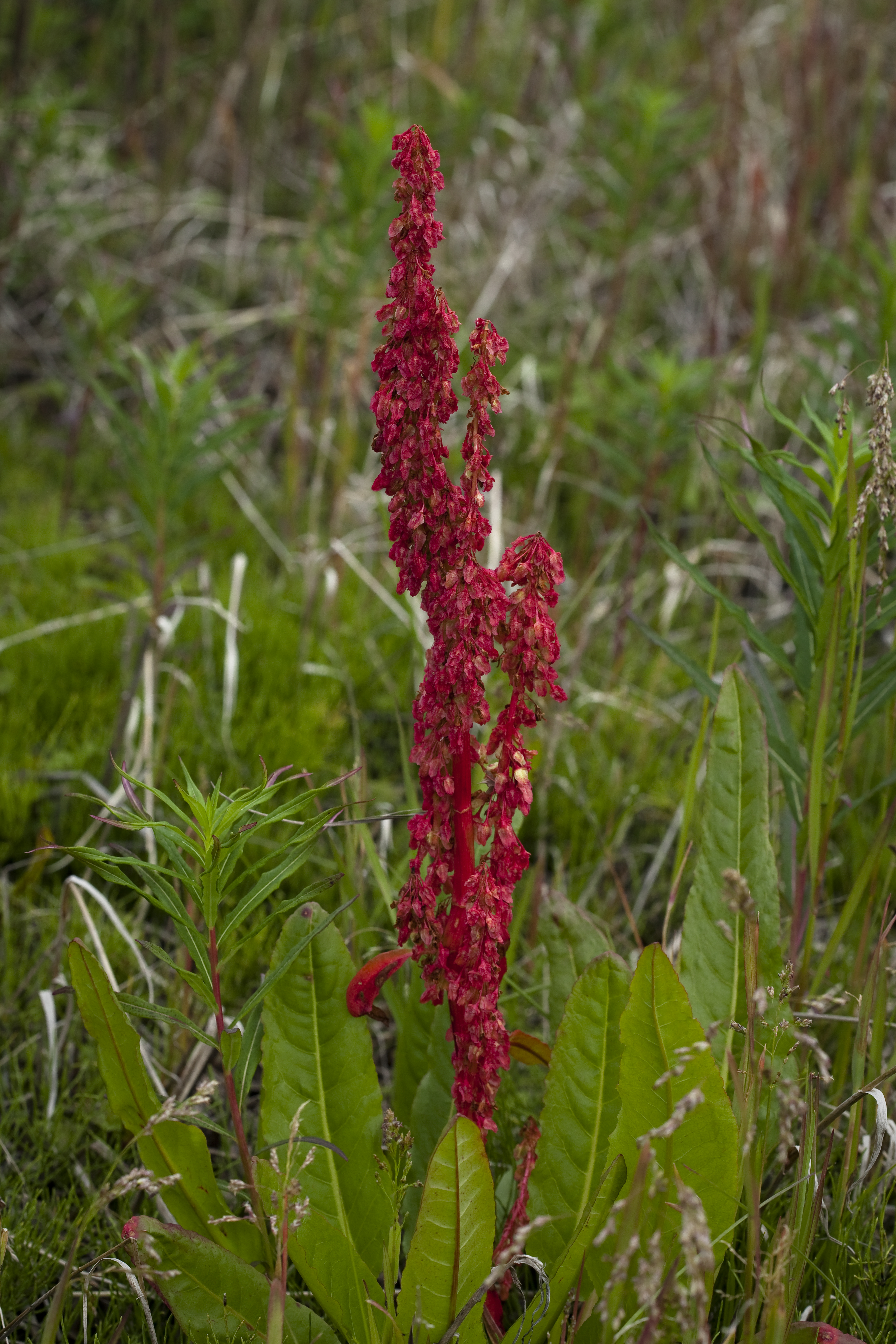 Rumex arcticus by Jacob W. Frank